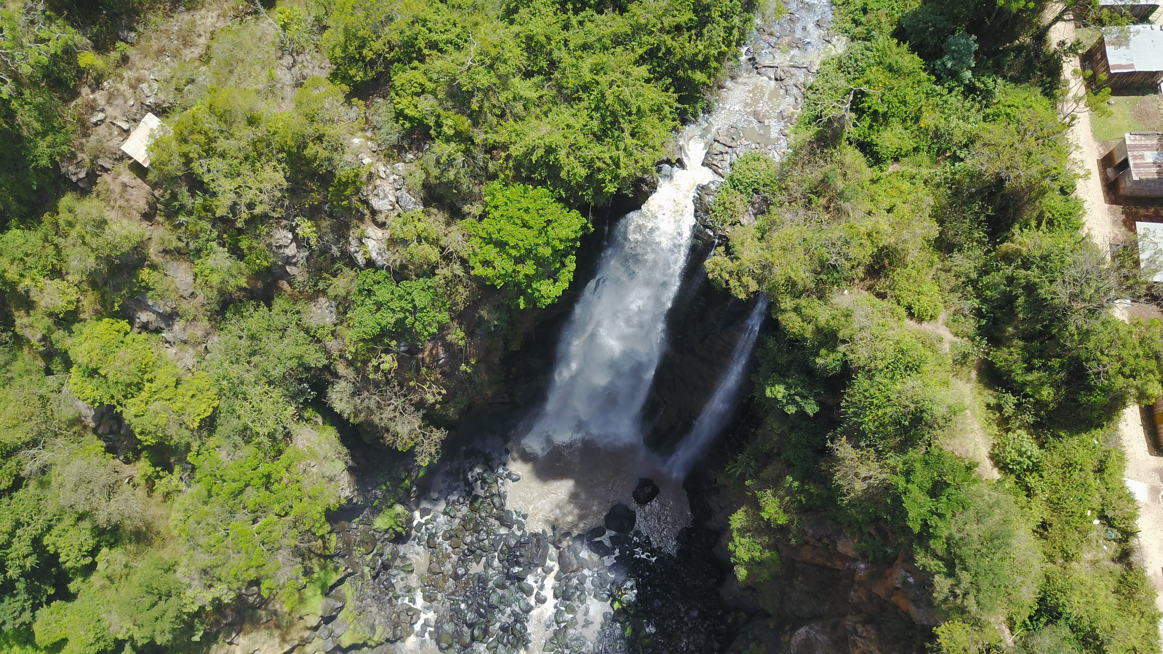 This is an aerial view of Thompson Falls, located in Nyahururu, Kenya.